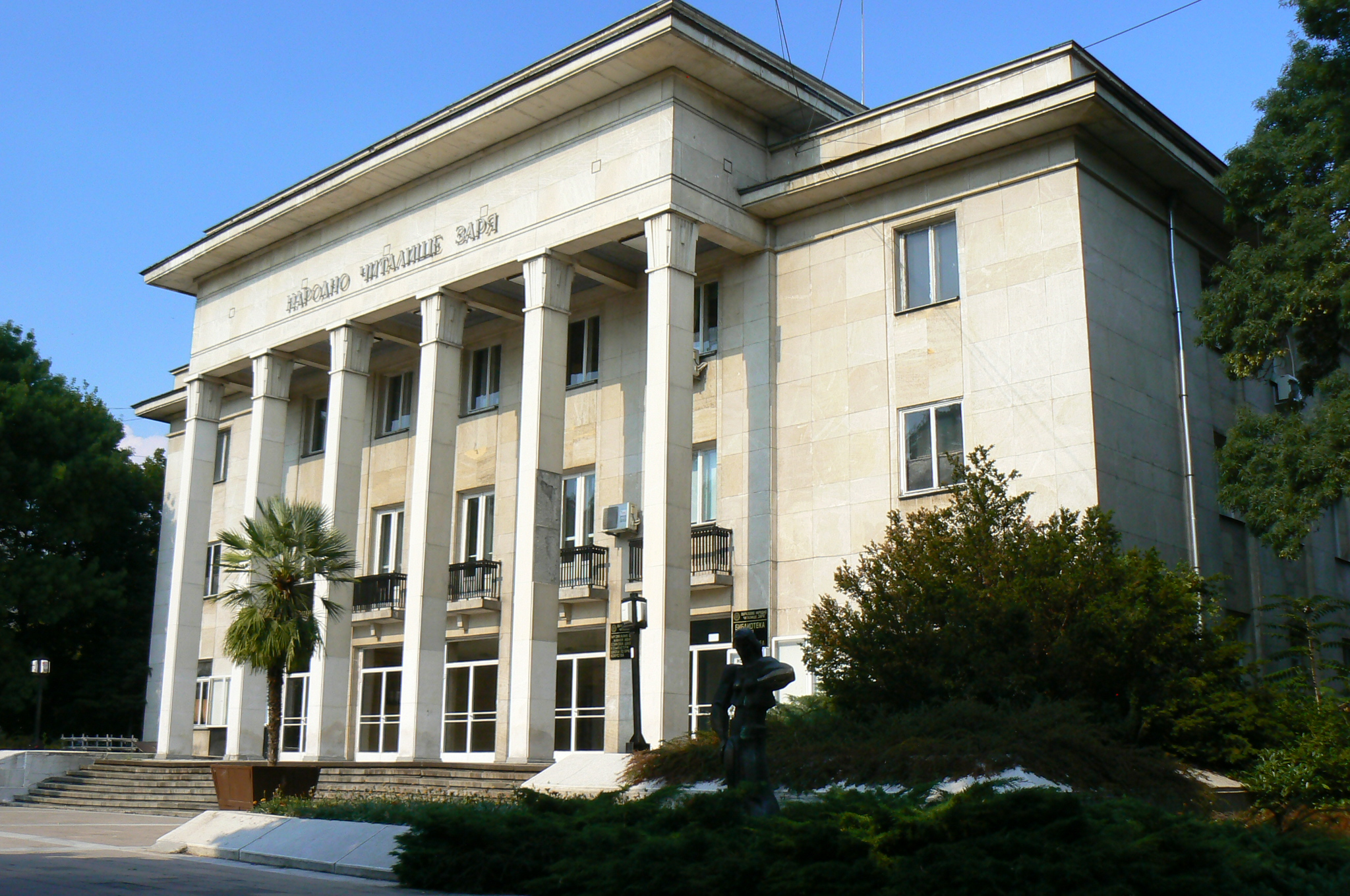 Chitalishte "Zarya" in Haskovo, Bulgaria